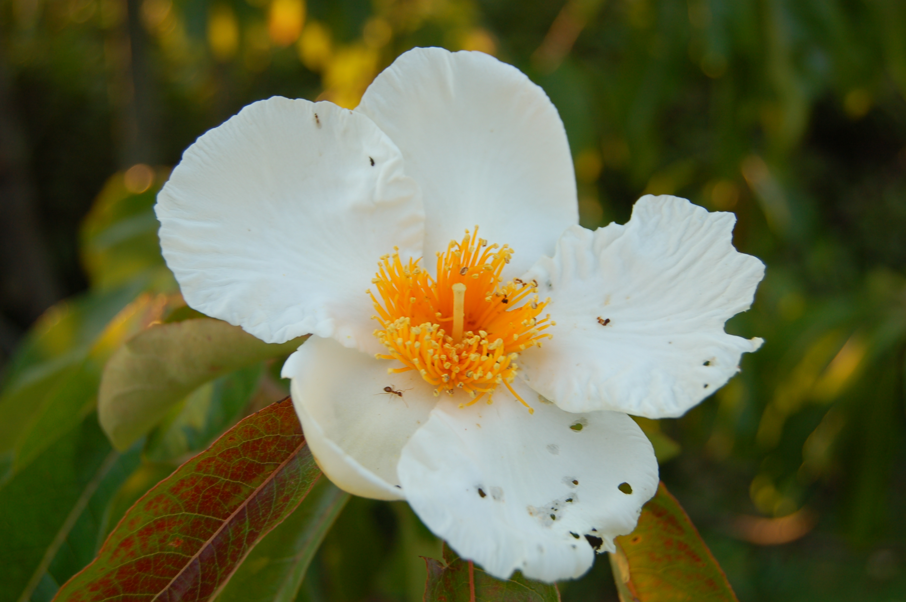 Photograph of the flower of the Franklin Tree (Franklinia alatamaha). Photo taken at the Tyler Arboretum where it was identified.